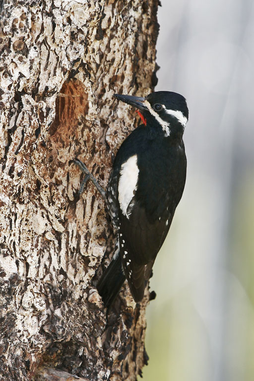 Hell's Canyon, OR June 14 Williamson's Sapsucker (Sphyrapicus thyroideus)